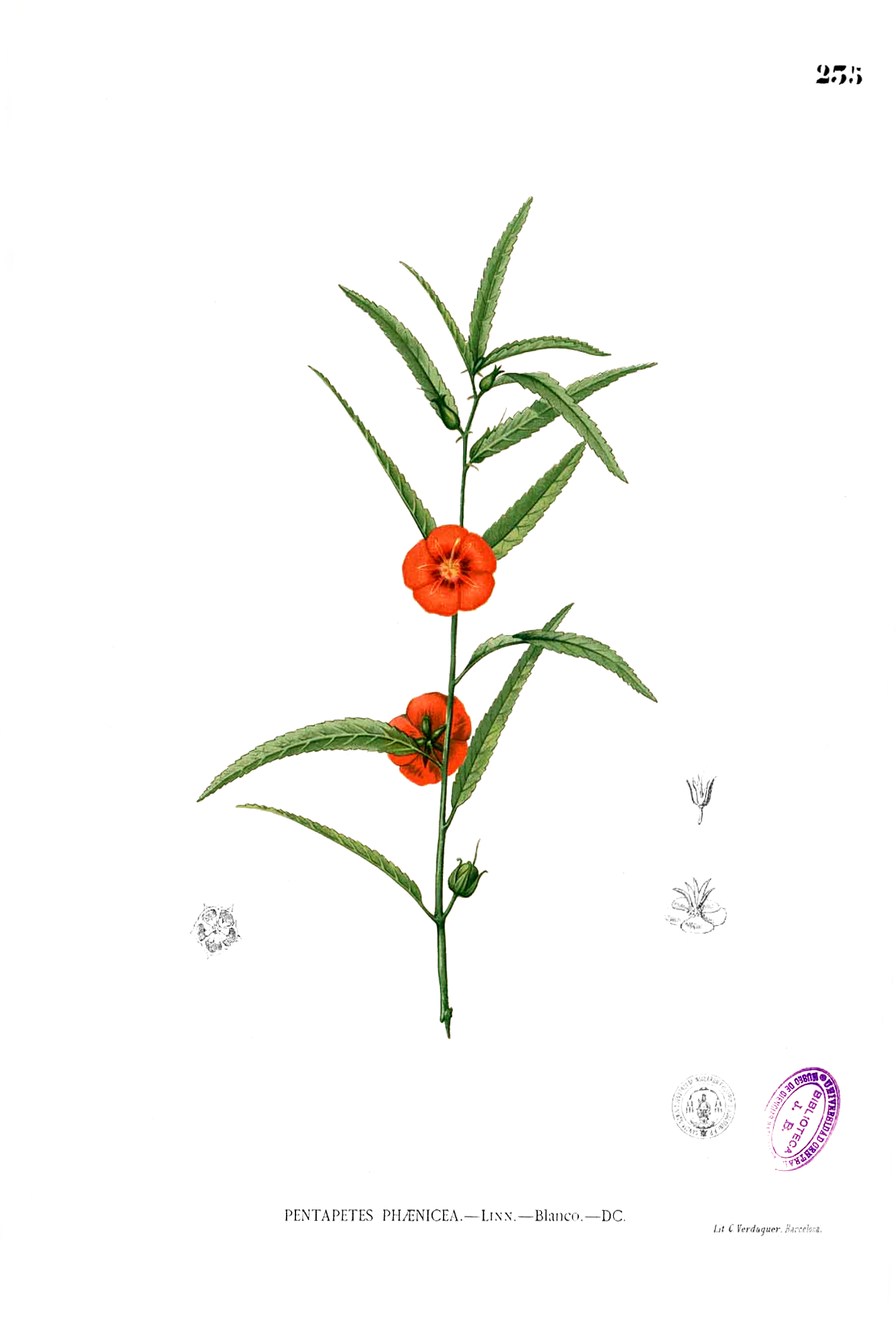 Plate from book